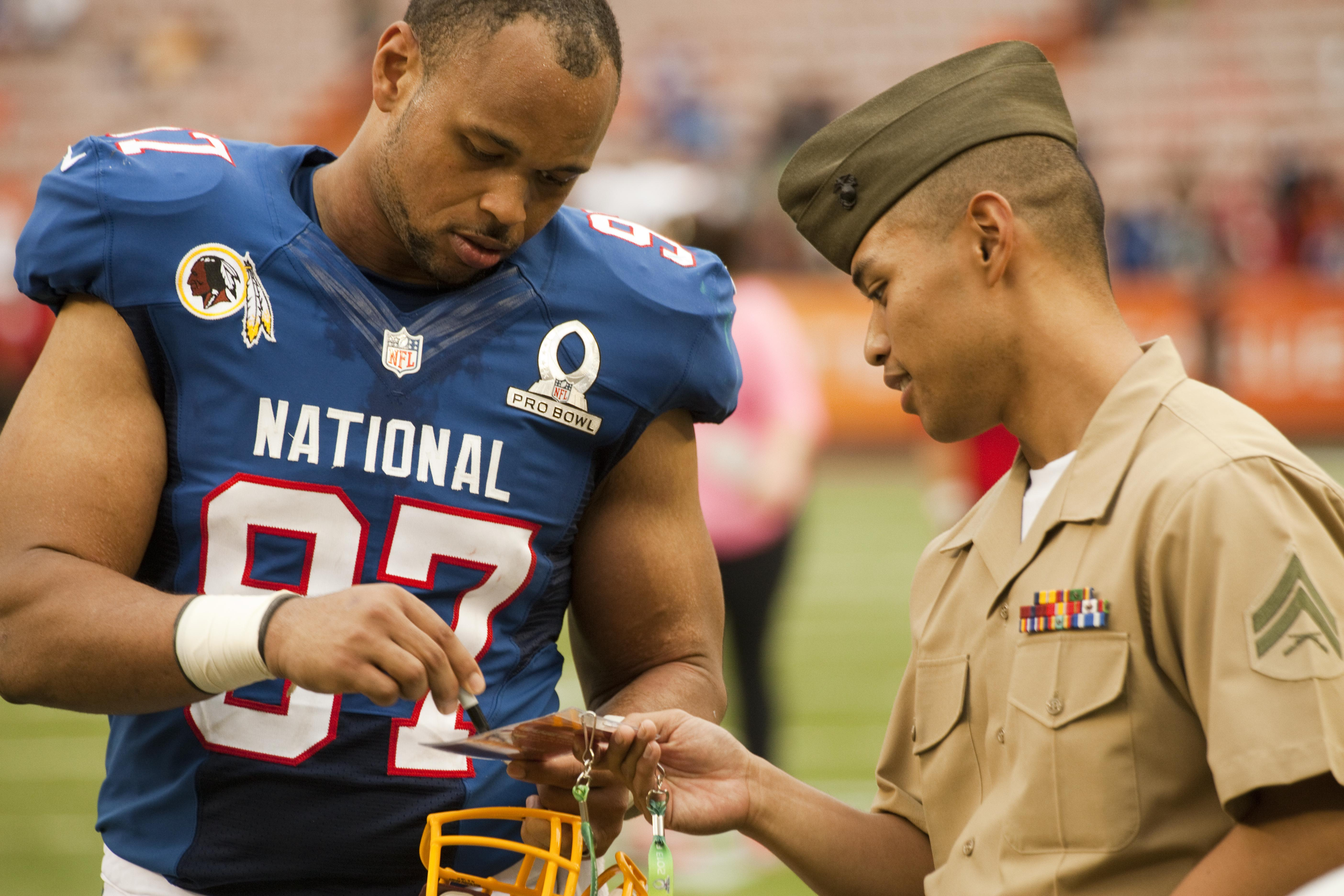 Washington Redskins linebacker Lorenzo Alexander signs an autograph for Cpl. Charles Vallero, a military policeman with Marine Corps Base Hawaii’s Provost Marshal’s Office, after the 2013 NFL Pro Bowl at Aloha Stadium, Jan. 27.